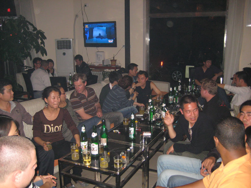 One of many Chinese and foreigner parties at the Plow Coffee House